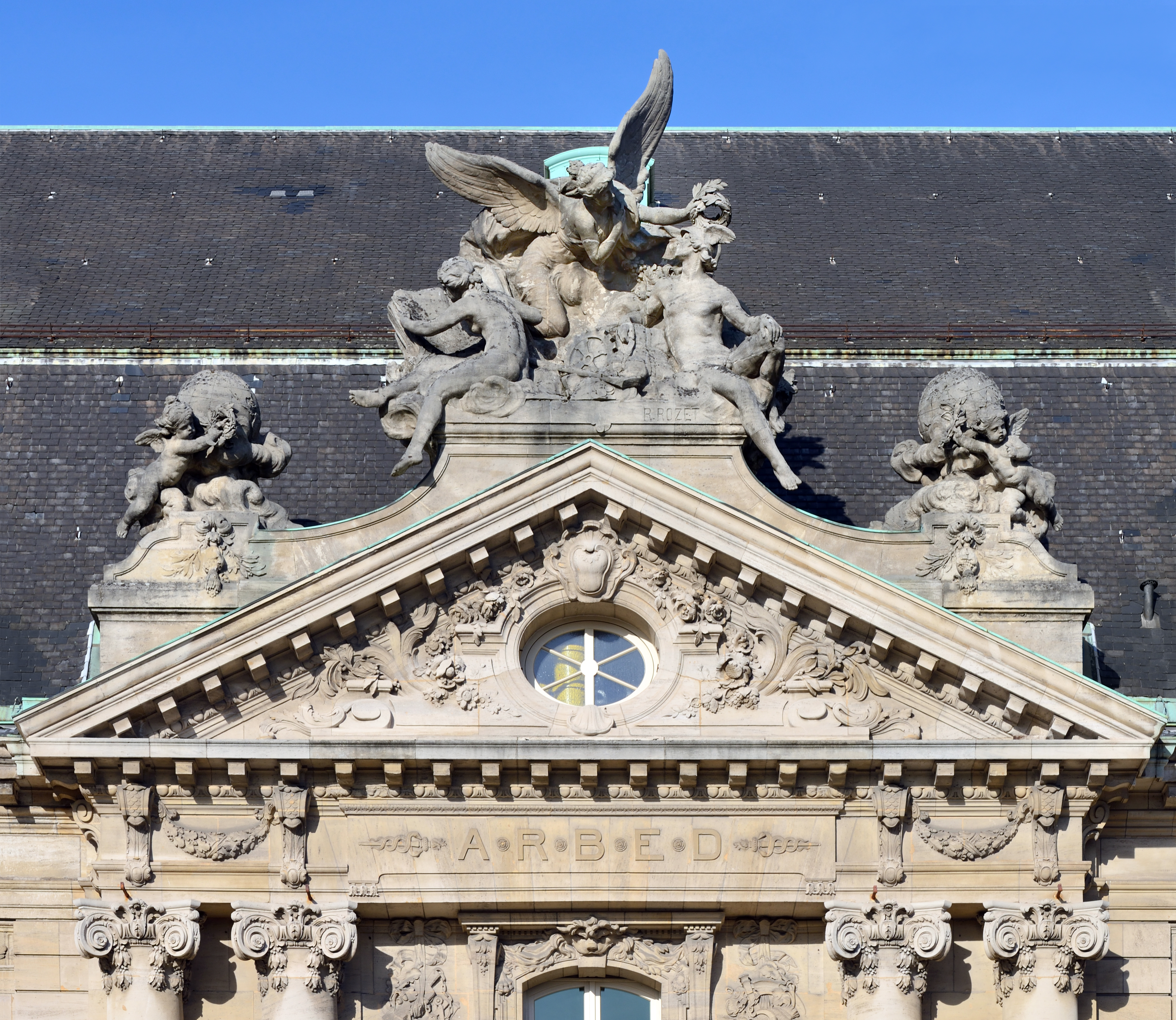 Luxembourg City: impediment of the main entrance of the ARBED-building (now ArcelorMittal) in rue de la Liberté. The impediment carries a sculpture of the French artist René Rozet (1858-1939): coronation of Mercury by Victoria.